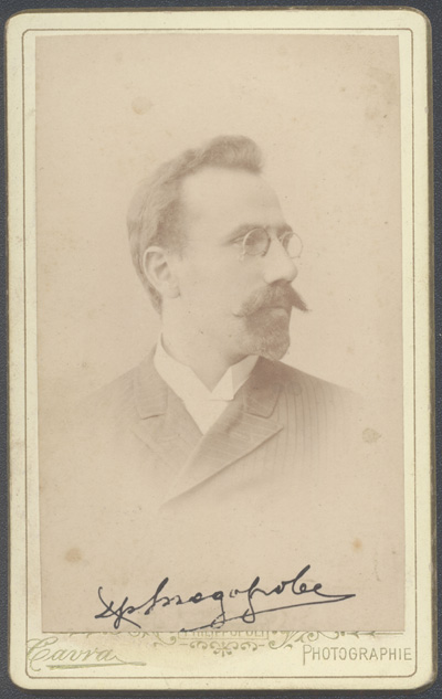 Bulgarian politician Hristo Todorov